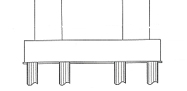 coupe fondation gières